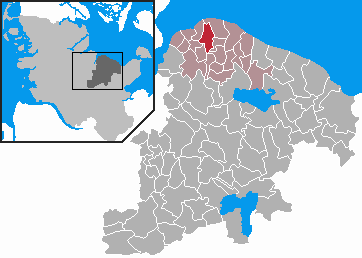 This map shows the area of the Gemeinde (municipality) Barsbek in the Kreis (district) Plön, Schleswig-Holstein, Germany.